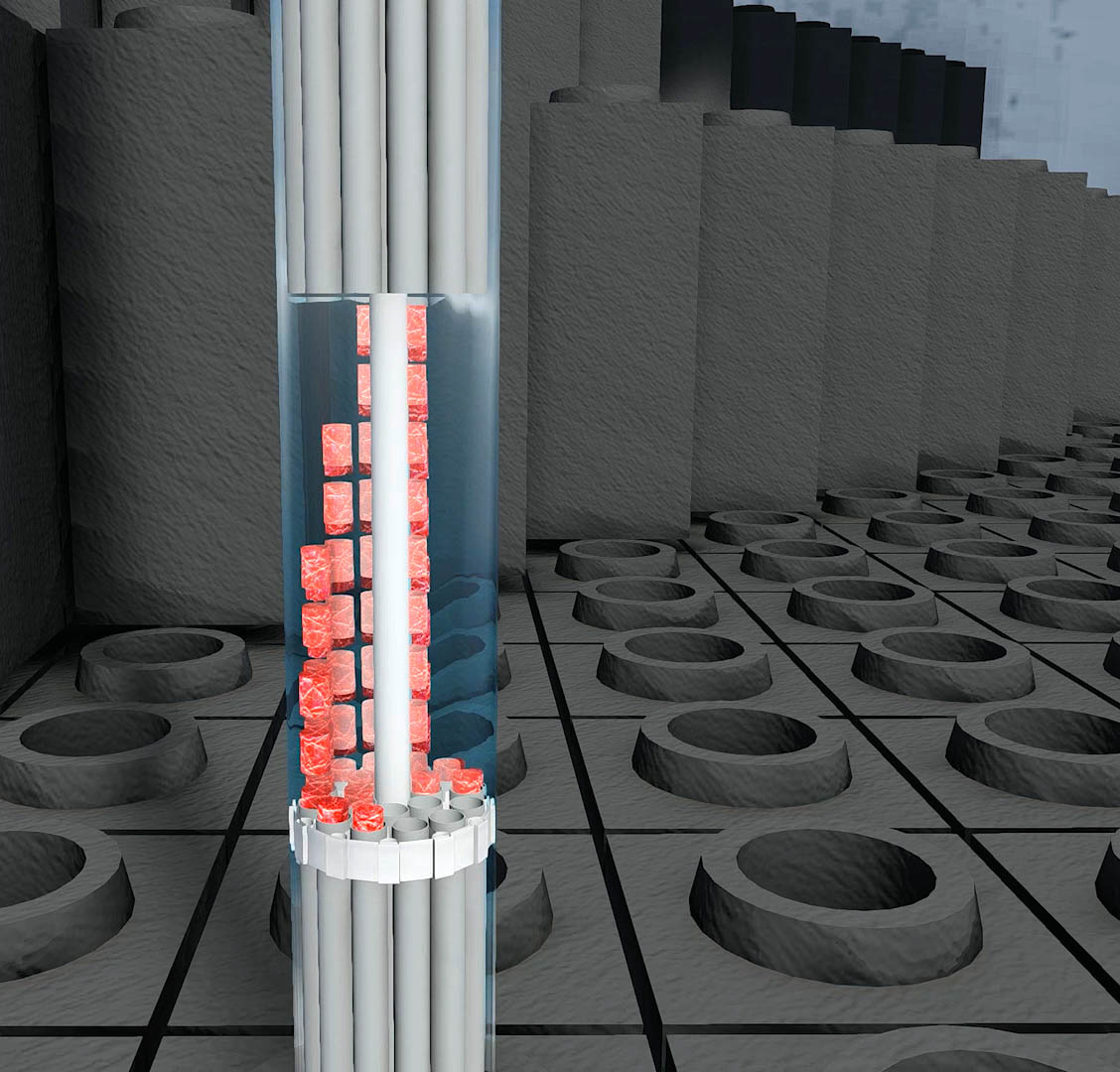 The illustration is cut-away view illustrating the the fuel pellets, fuel tubes, spacer rings inside the graphite bricks.